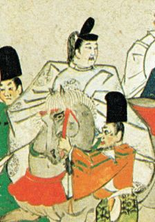 Fujiwara no Michiyori